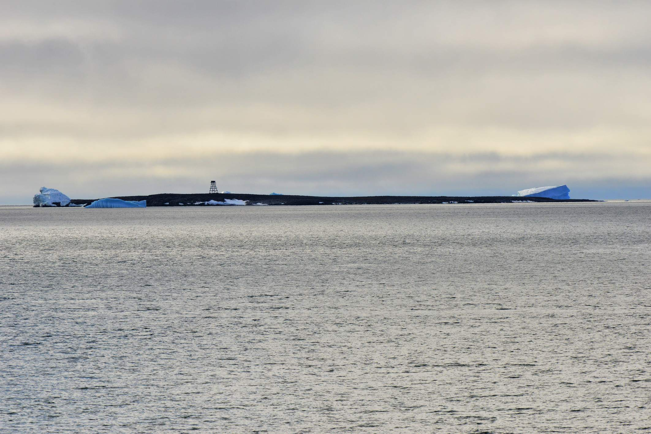 Antsev Point (Southern coast of Bolshevik Island, Severnaya Semlya, Russia; 78°11’N, 103°7’E)